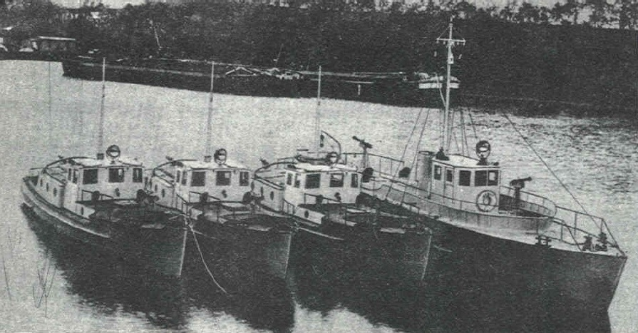 Polish Border Guard patrol boats, 1932